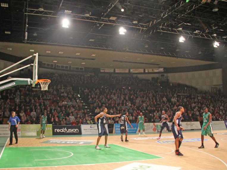 The Plymouth Pavilions main arena in basketball mode, home of the Plymouth Raiders